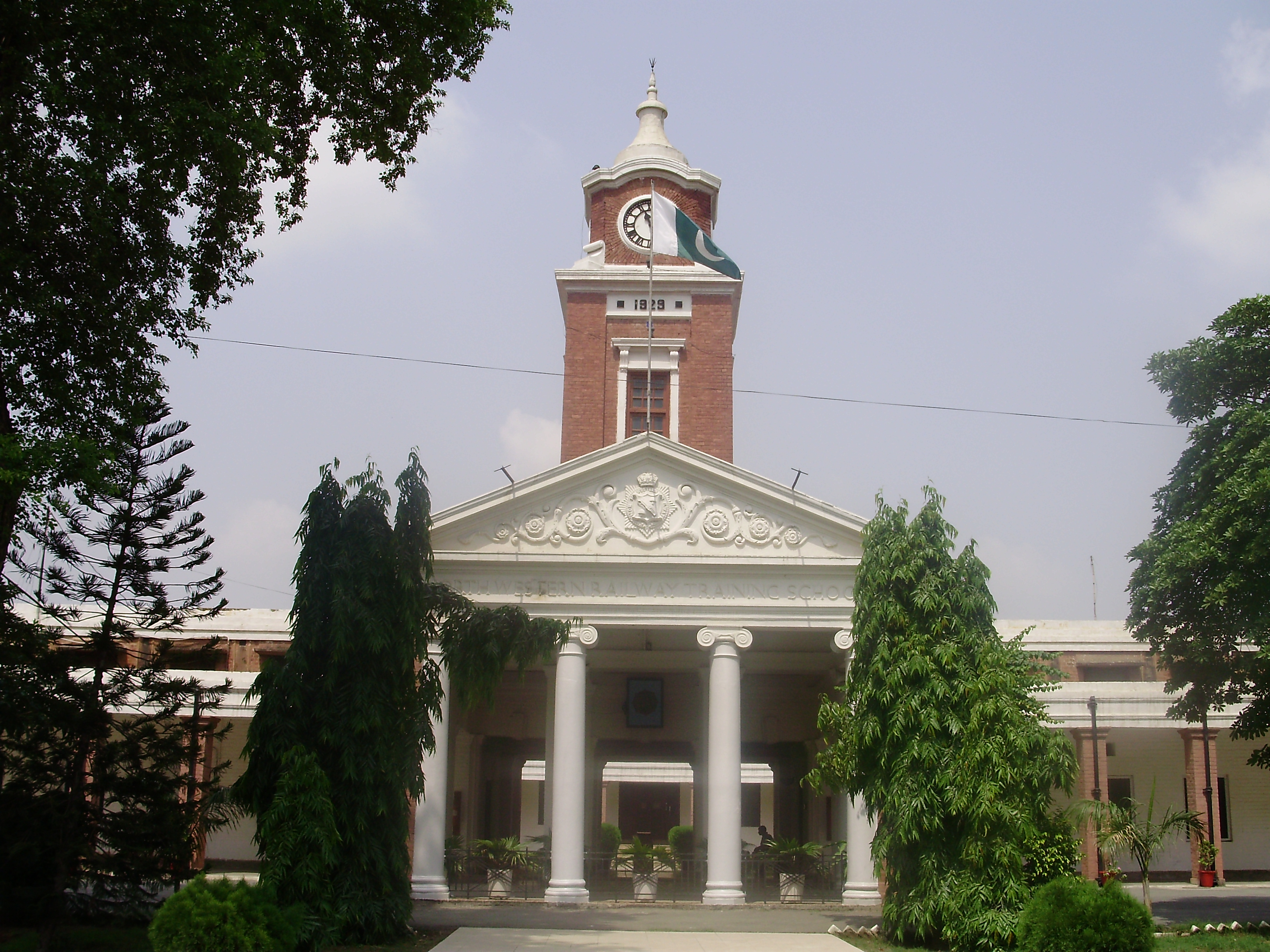 The façade of Pakistan Railways Training Academy